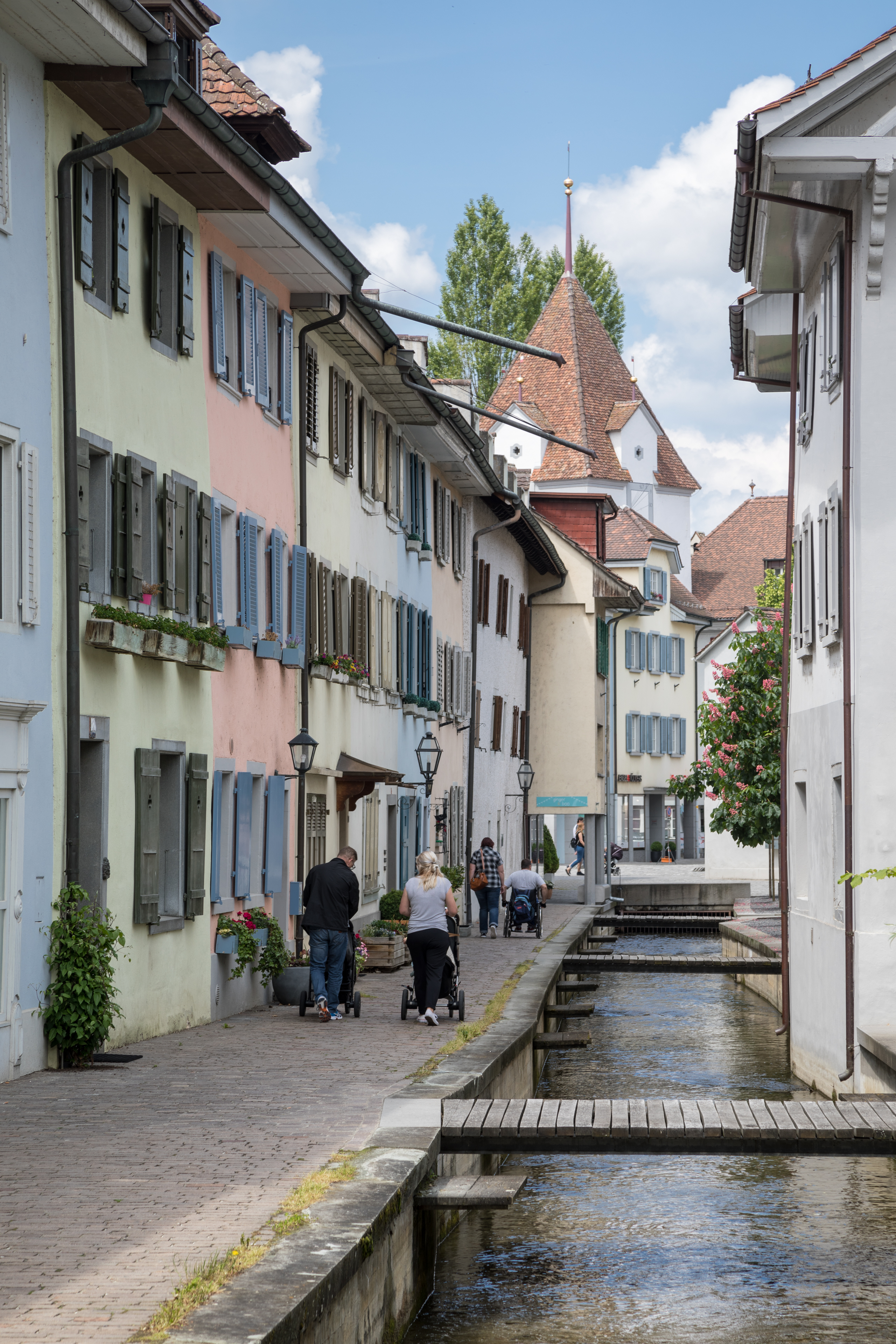 Small river "Suhre" in the historic town of Sursee, canton of Lucerne